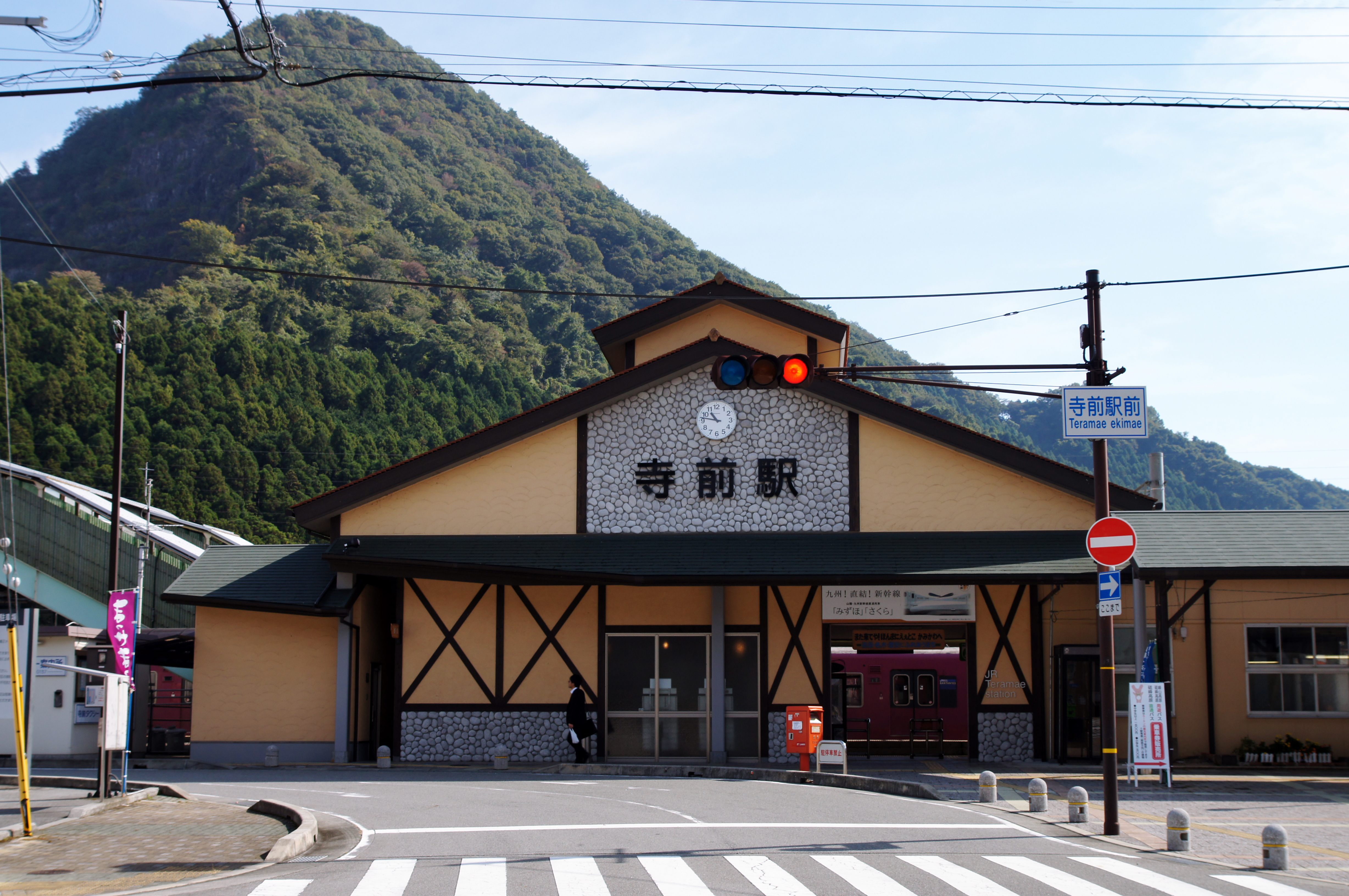 Teramae Station in Kamikawa, Hyogo prefecture, Japan.